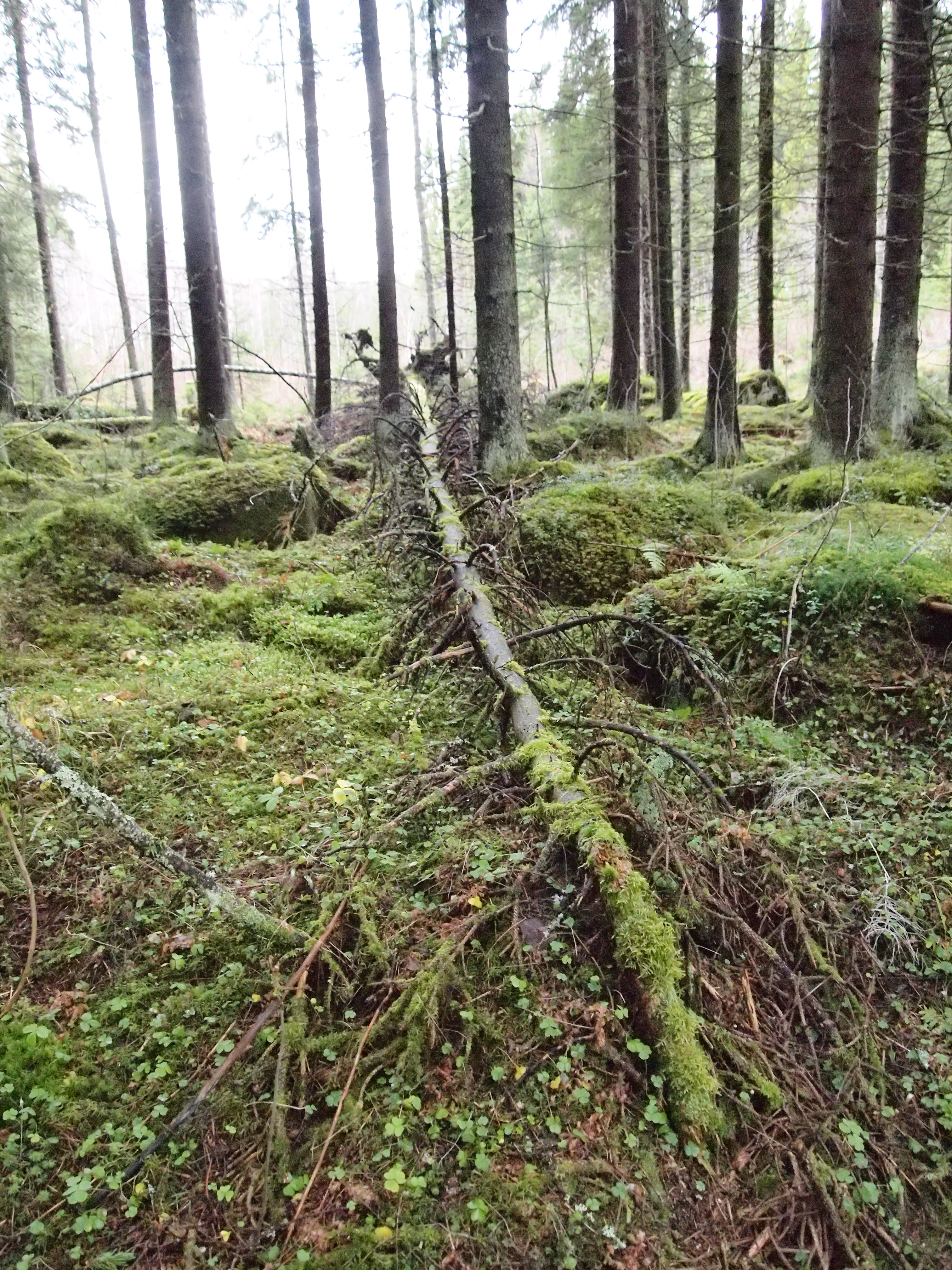 Fallen tree in forest in Haukkamäki district, Jyväskylä. The forest is situated between the streets Nuutinkorventie and Koppalankaari. This photograph was taken with a Olympus E-PL1.